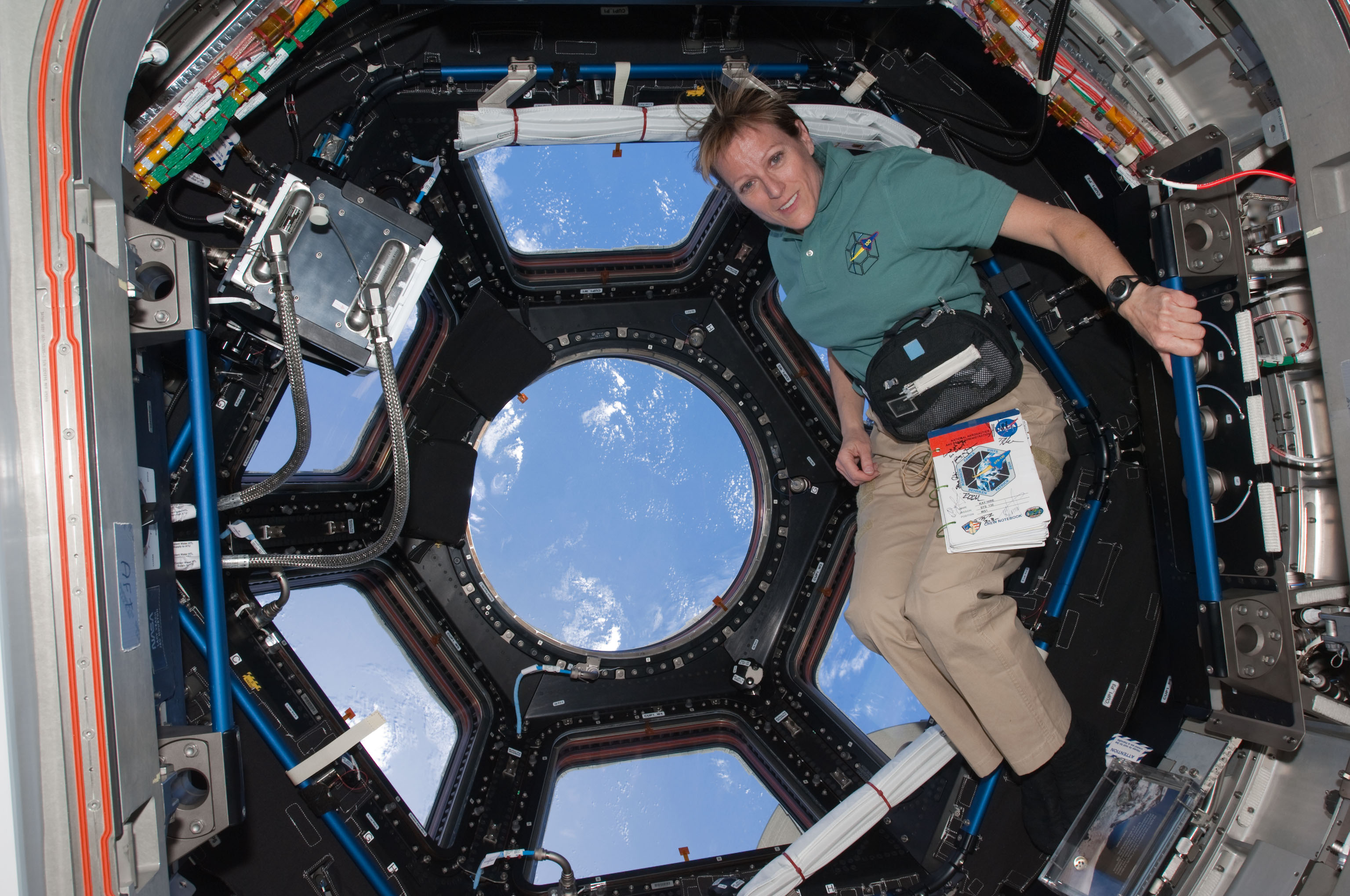 NASA astronaut Kathryn Hire, STS-130 mission specialist, poses for a photo near the windows in the Cupola of the International Space Station while space shuttle Endeavour remains docked with the station.